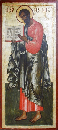 Saint Mark, Russian icon from first quarter of 18th cen.